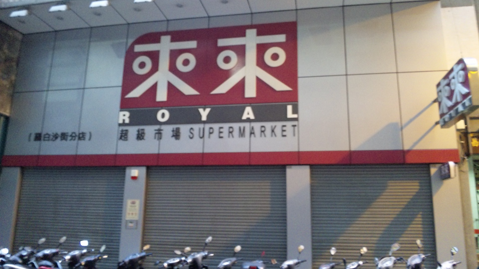 (c)Oct, 2010 Nnnagoya